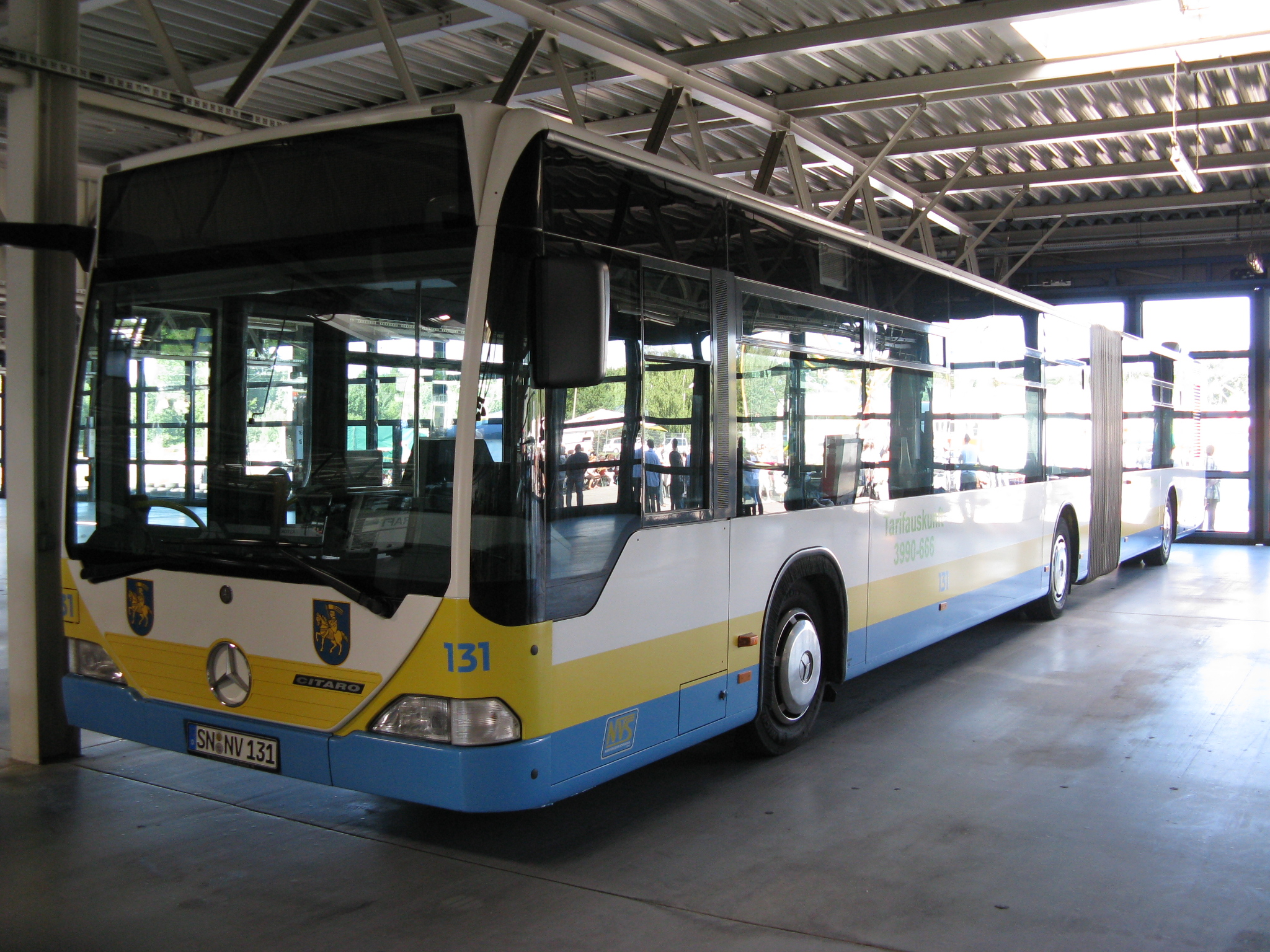 Bus Mercedes Citaro 530 G of Schwerin's public transport, Schwerin, Germany, depot Haselholz